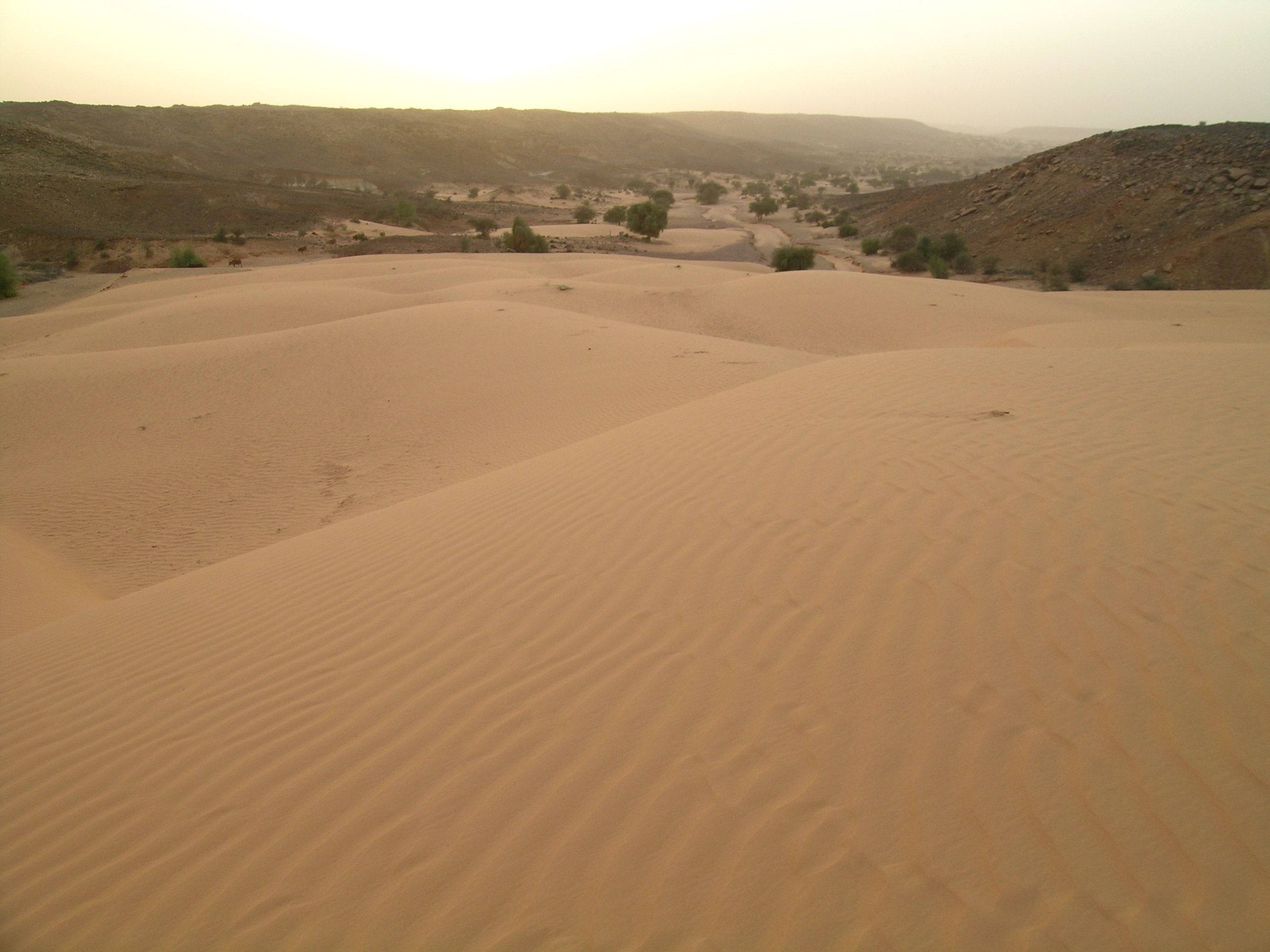 Valley near Oualata (Mauritania)